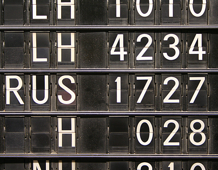 Old mechanical time table at Frankfurt's airport.